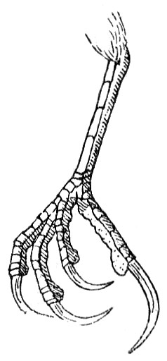 Eurasian Treecreeper (Certhia familiaris) foot